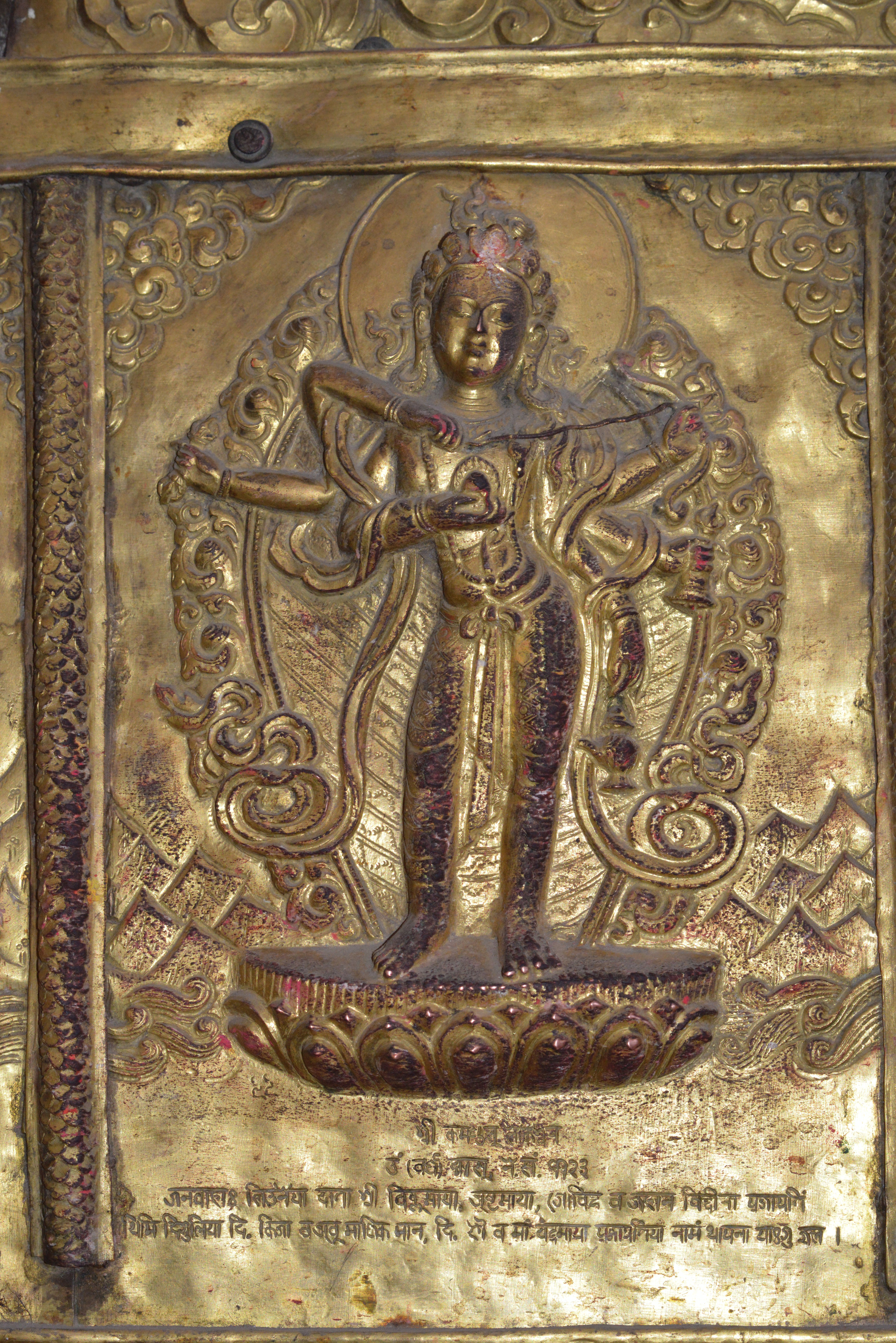 Image of Kamaṇḍalu Lokeśvara in Jana Bahal